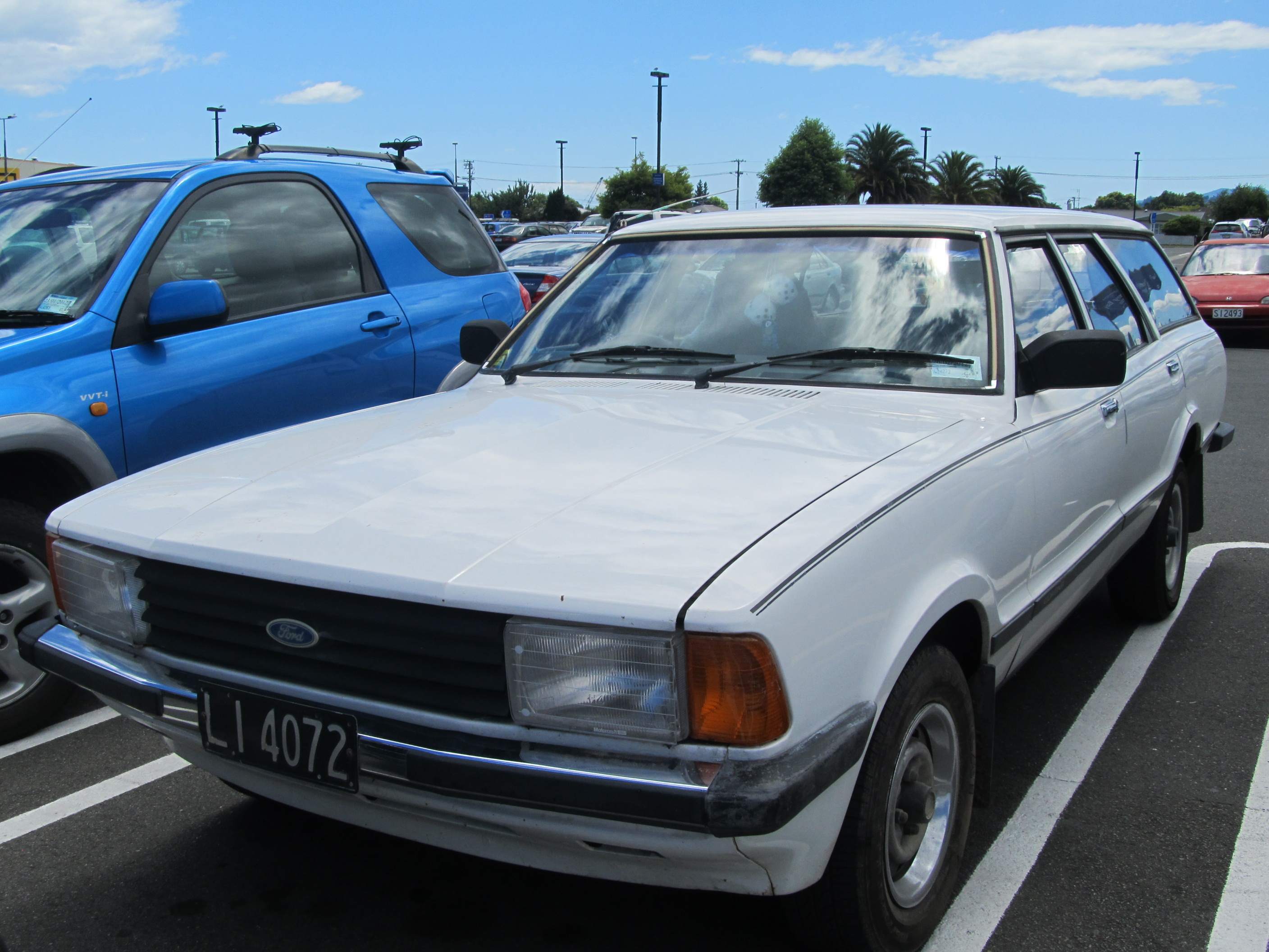 1983 Ford Cortina L estate, assembled at Ford's Lower Hutt plant in New Zealand. While NZ assembly of the saloon ceased in 1983 estates continued until introduction of the Sierra estate in 1984.